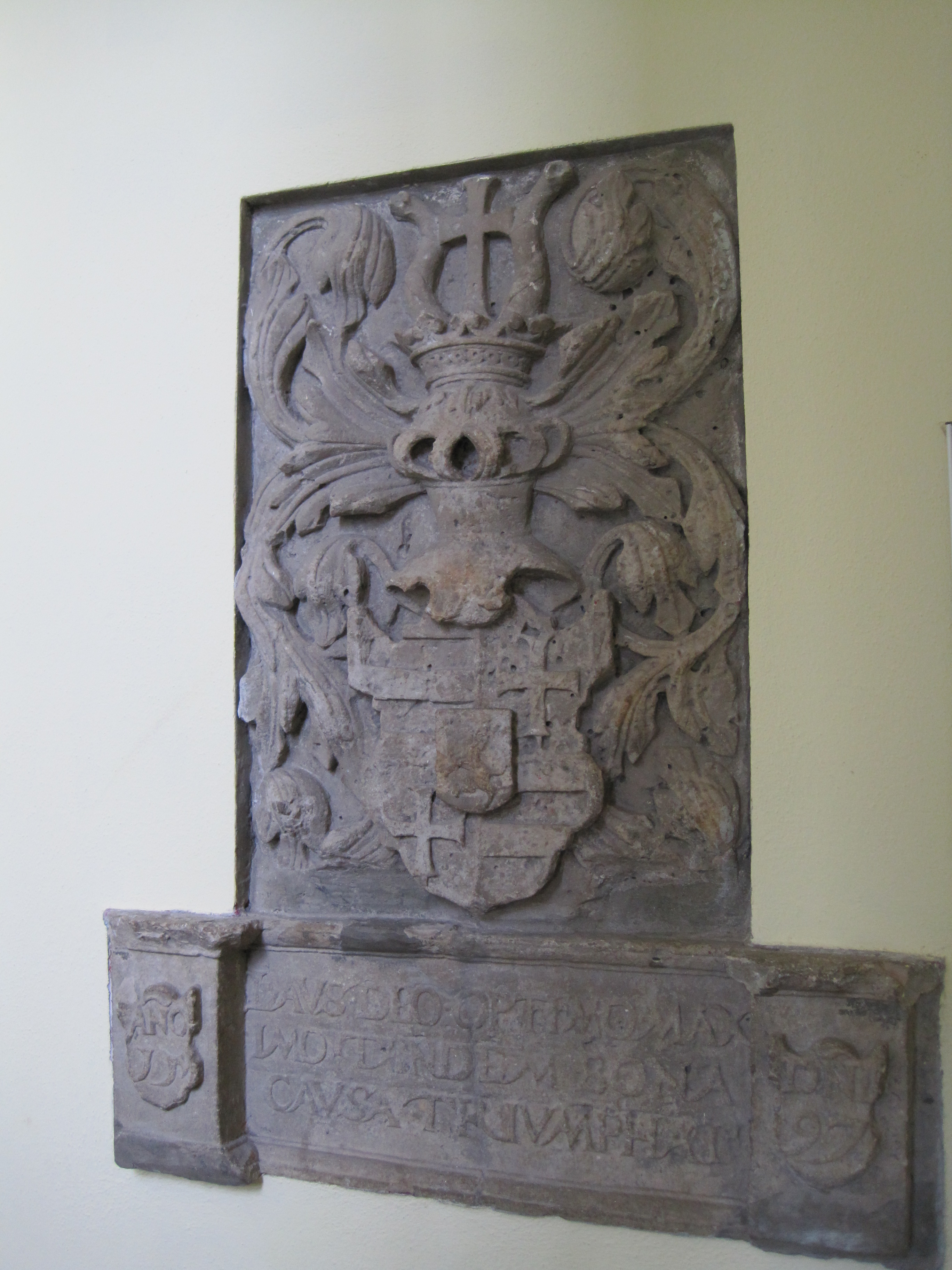 Coat of arms in Westturm, Wangerooge, Germany check usage